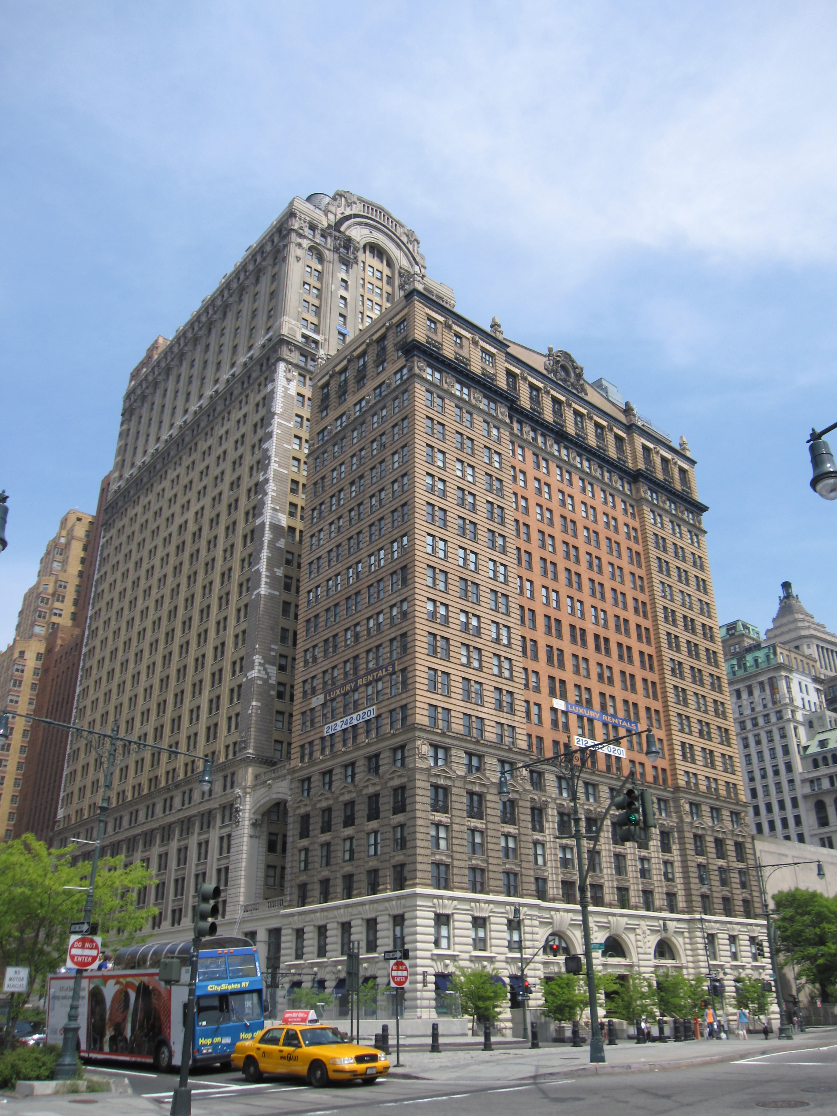 Whitehall Building at 17 Battery Park/1-17 West Street in New York.